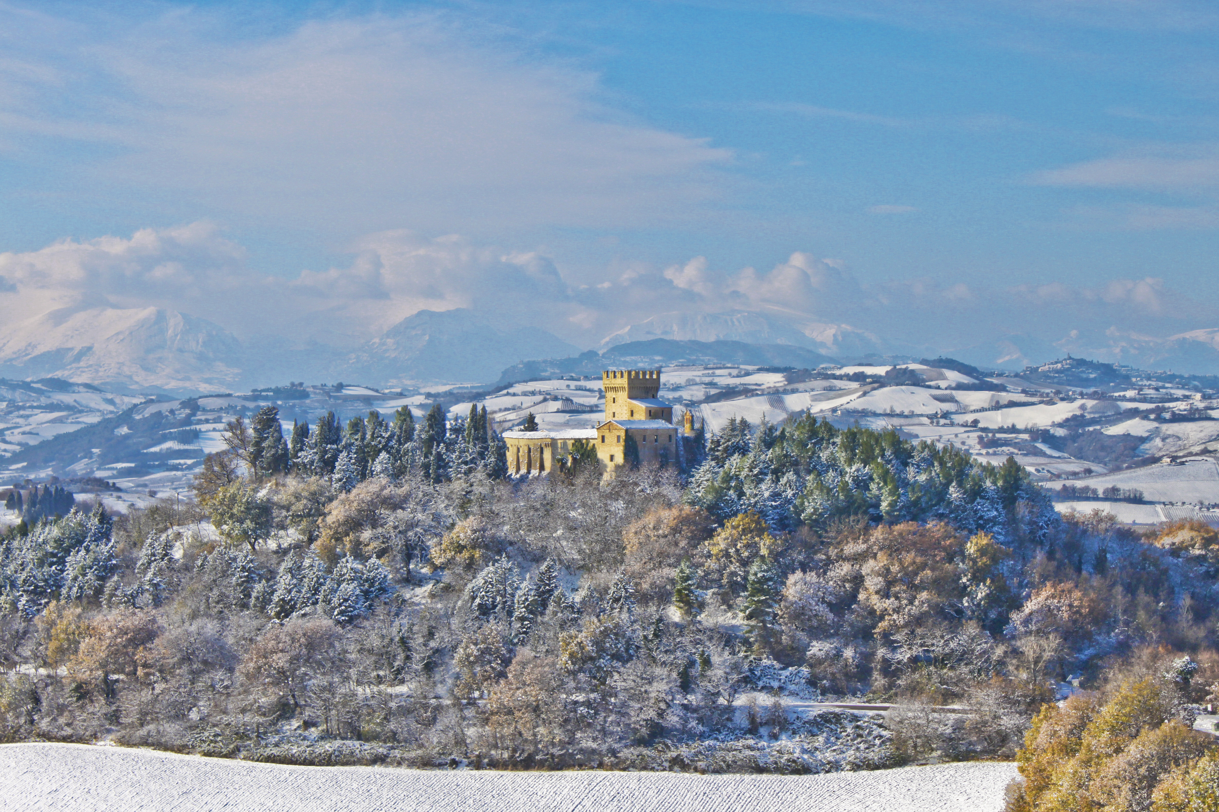 The castle is a destination for visitors and is an attractive attraction throughout the area and a landmark for the surrounding countryside, as well as a landscaped spot, as it rises on a hill between the green of centuries-old plants.